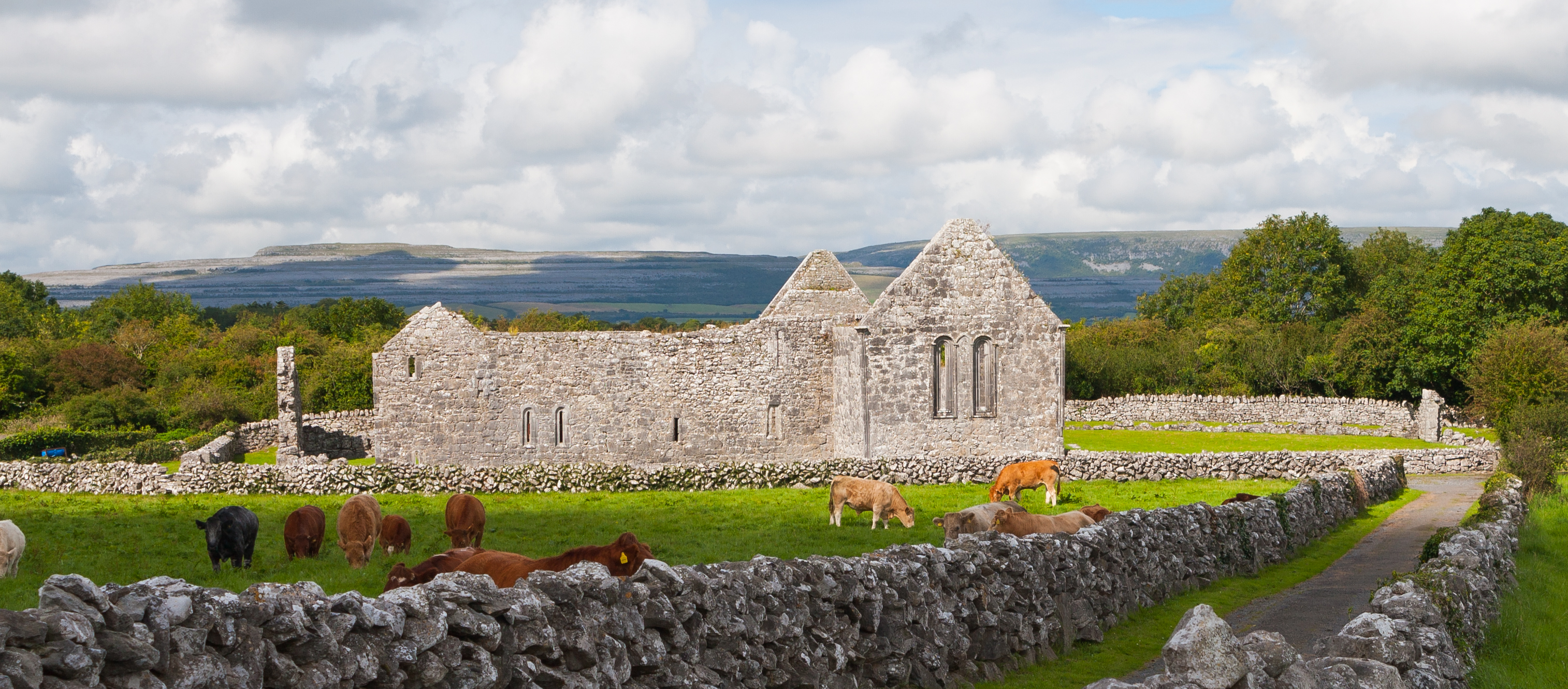 East range of the Augustinian abbey of St. Mary de Petra, commonly called O'Heyne's Abbey after the founder.